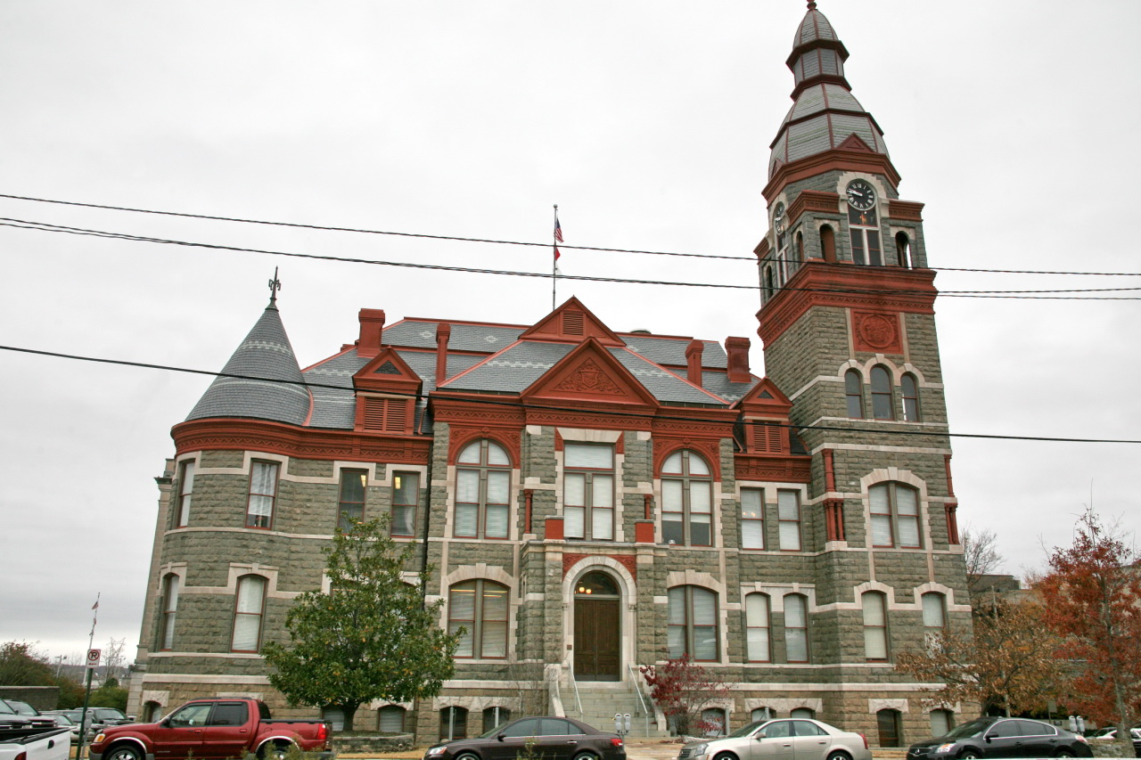 Pulaski County Courthouse in Little Rock, Arkansas, United States